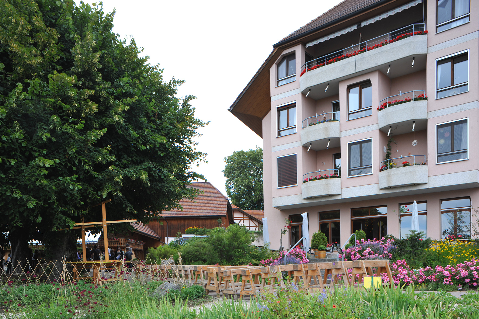 Ruettihubelbad near Worb, retirement and foster home; Berne, Switzerland.